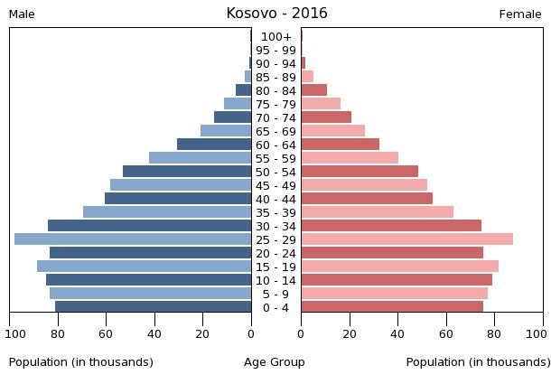 The population pyramid of Kosovo illustrates the age and sex structure of population and may provide insights about political and social stability, as well as economic development. The population is distributed along the horizontal axis, with males shown on the left and females on the right. The male and female populations are broken down into 5-year age groups represented as horizontal bars along the vertical axis, with the youngest age groups at the bottom and the oldest at the top. The shape of the population pyramid gradually evolves over time based on fertility, mortality, and international migration trends.